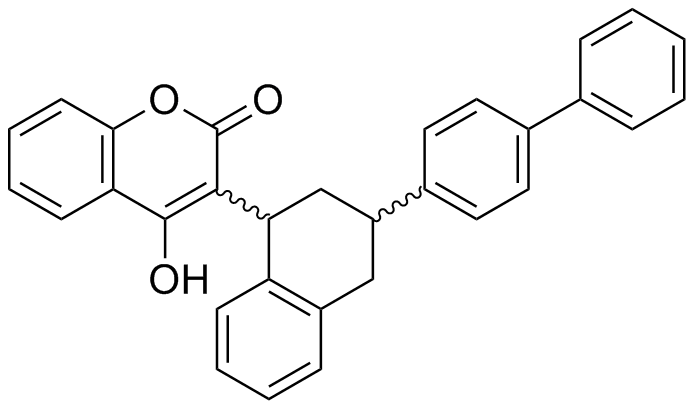 (1RS,3RS;1RS,3SR)-Difencoum, a second generation coumarin anticouagulant.